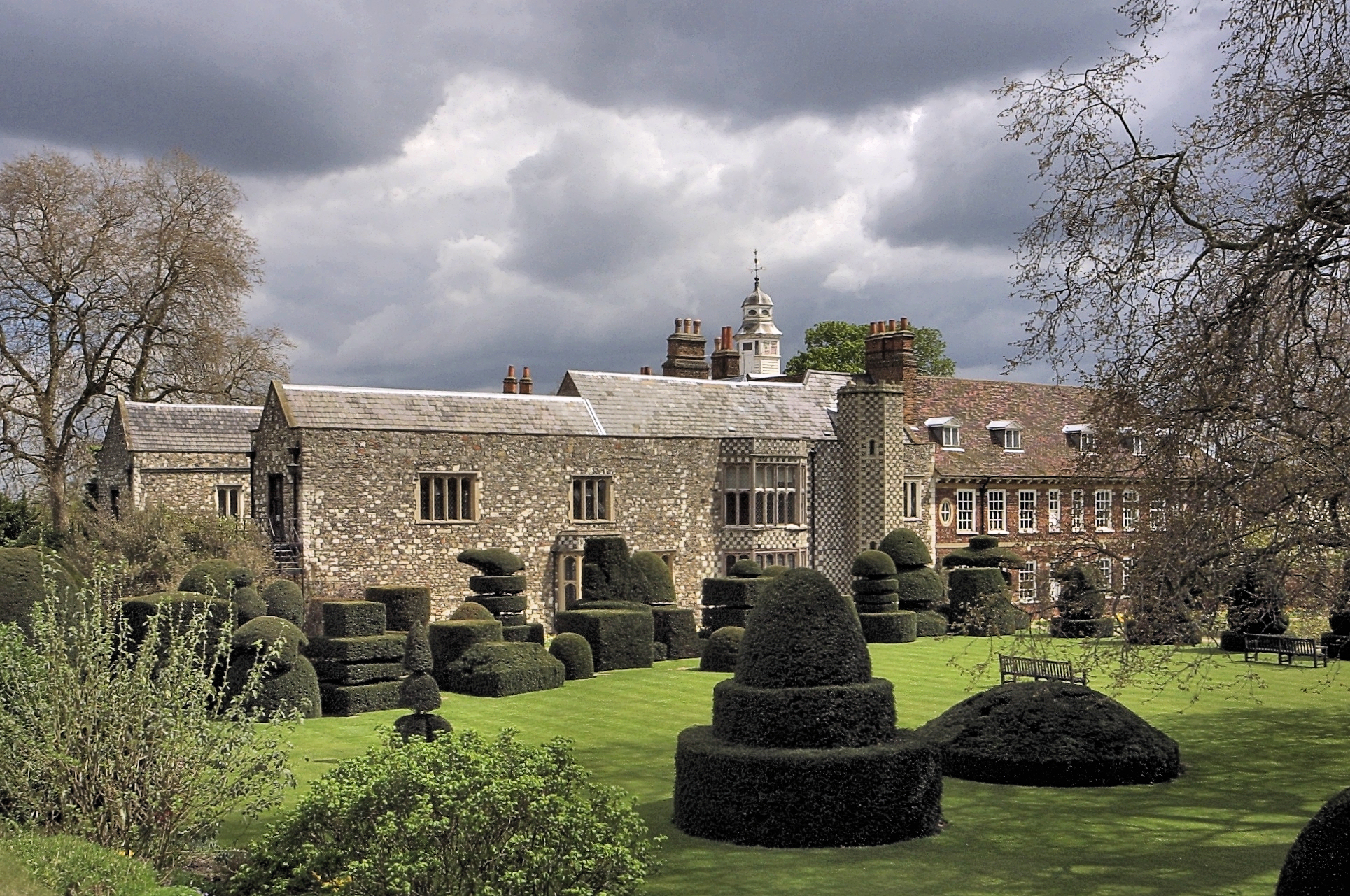 A view of Hall Place showing the topiary garden. The image was taken with a Canon EOS D30 with a Sigma 12-24mm lens.